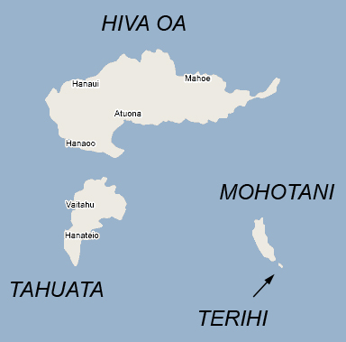 Pointer to Terihi island on the map